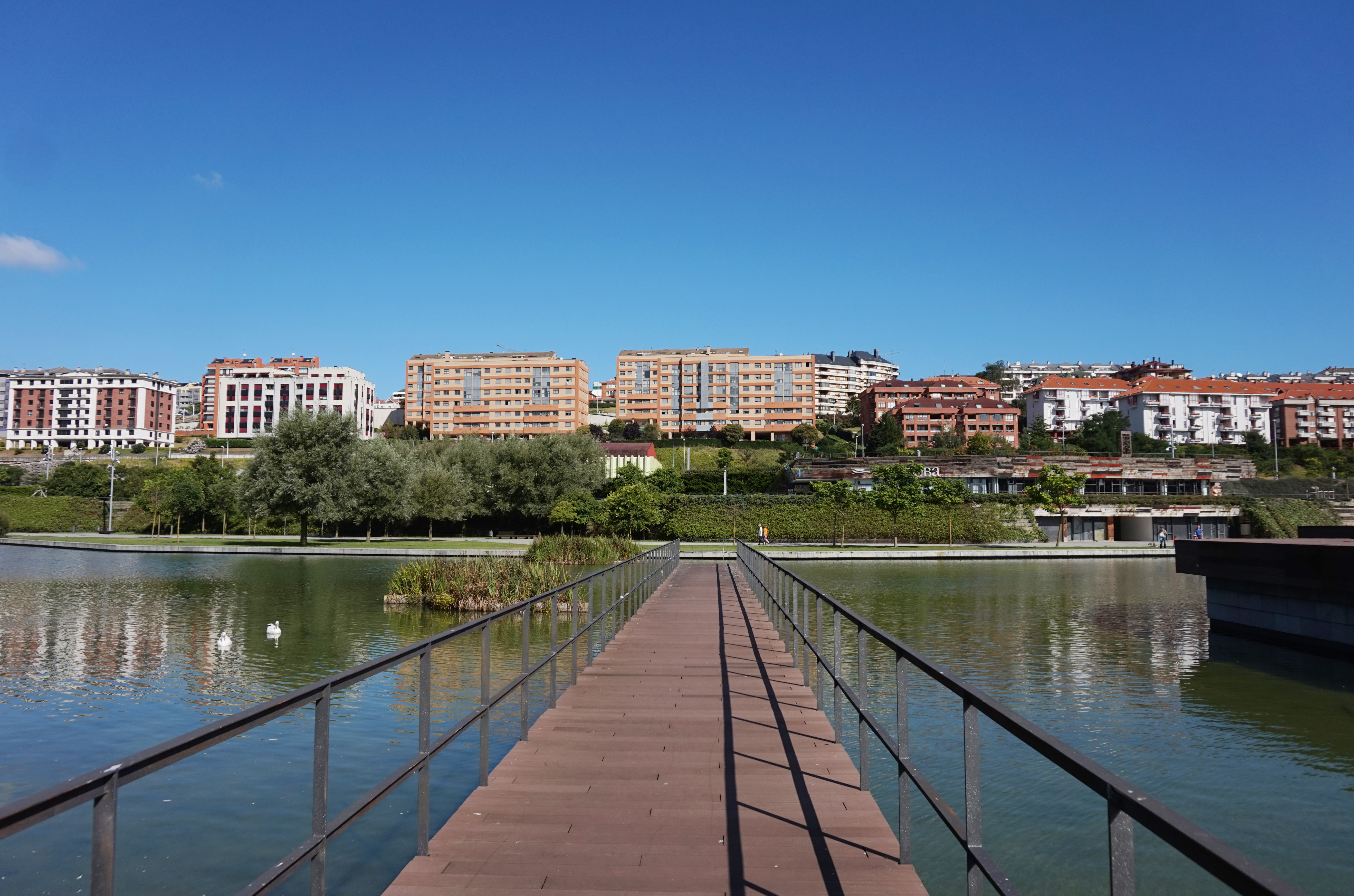 Parque de las Llamas in Santander, Spain. This photograph was taken with a Sony Alpha a5000.